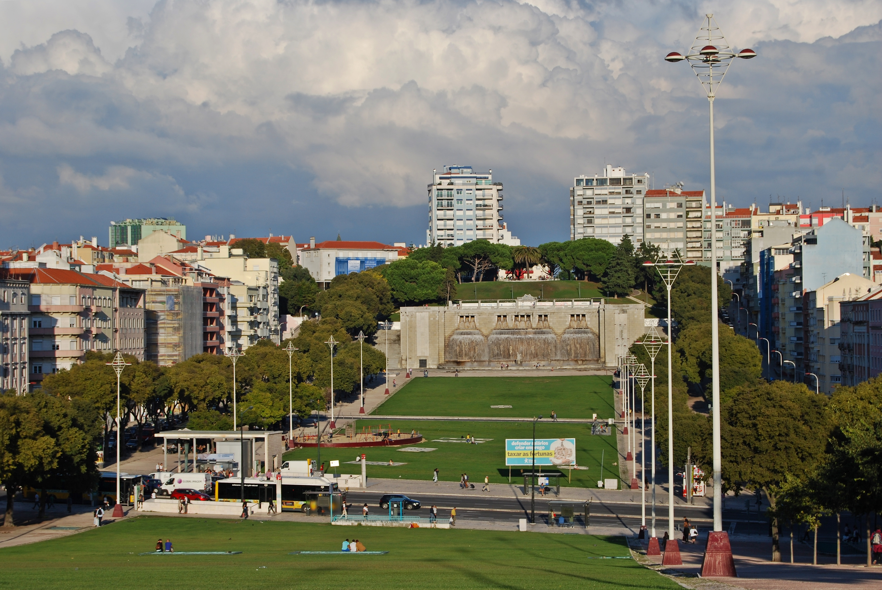 The Alameda Dom Afonso Henriques, an urban public park in the center of Lisbon.